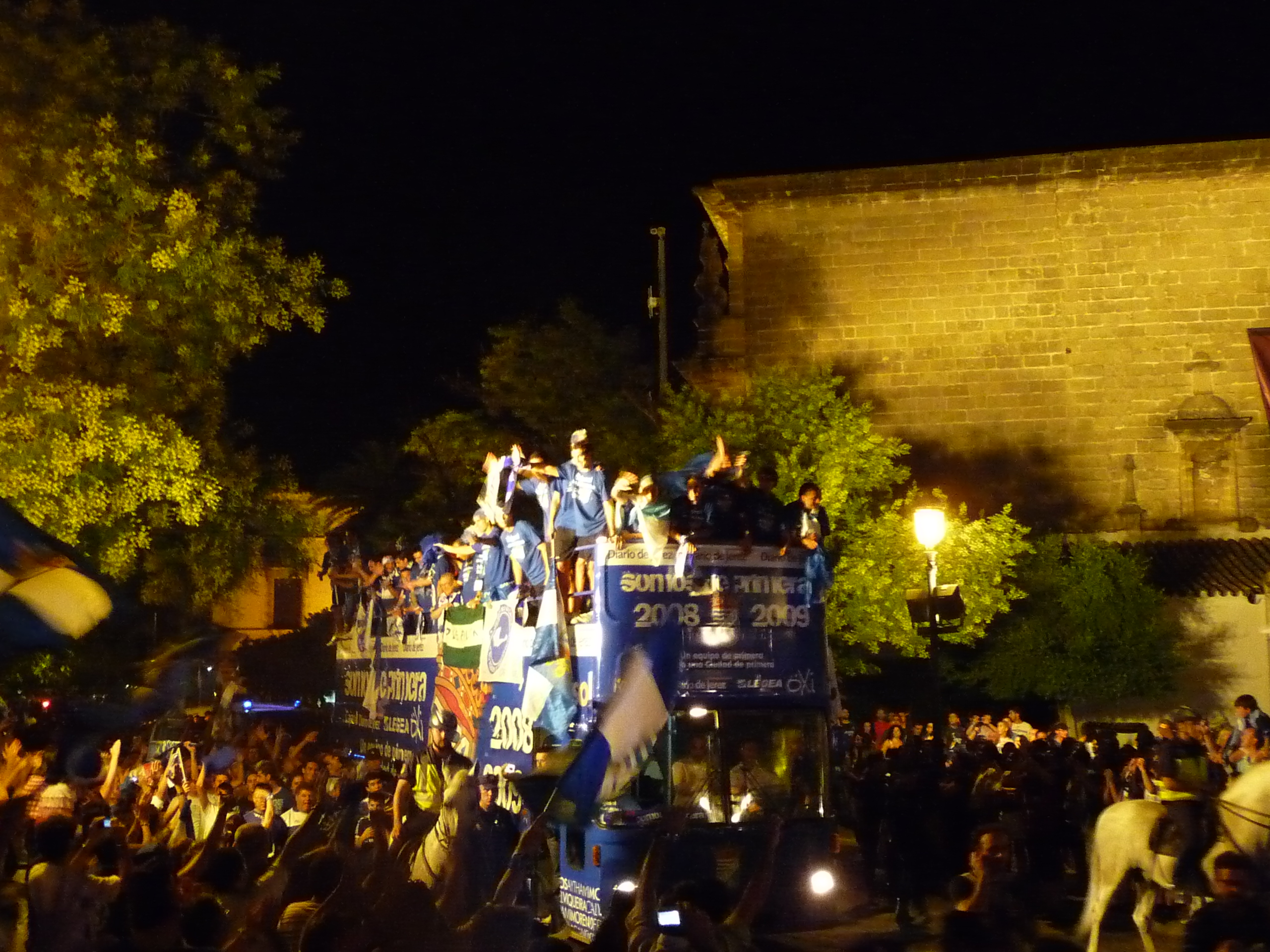 Xerez CD bus Celebrating getting in La Liga (primera division)